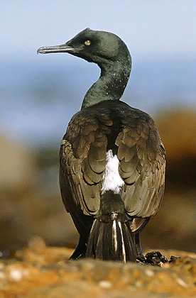 Bank Cormorant Phalacrocorax neglectus in breeding plumage